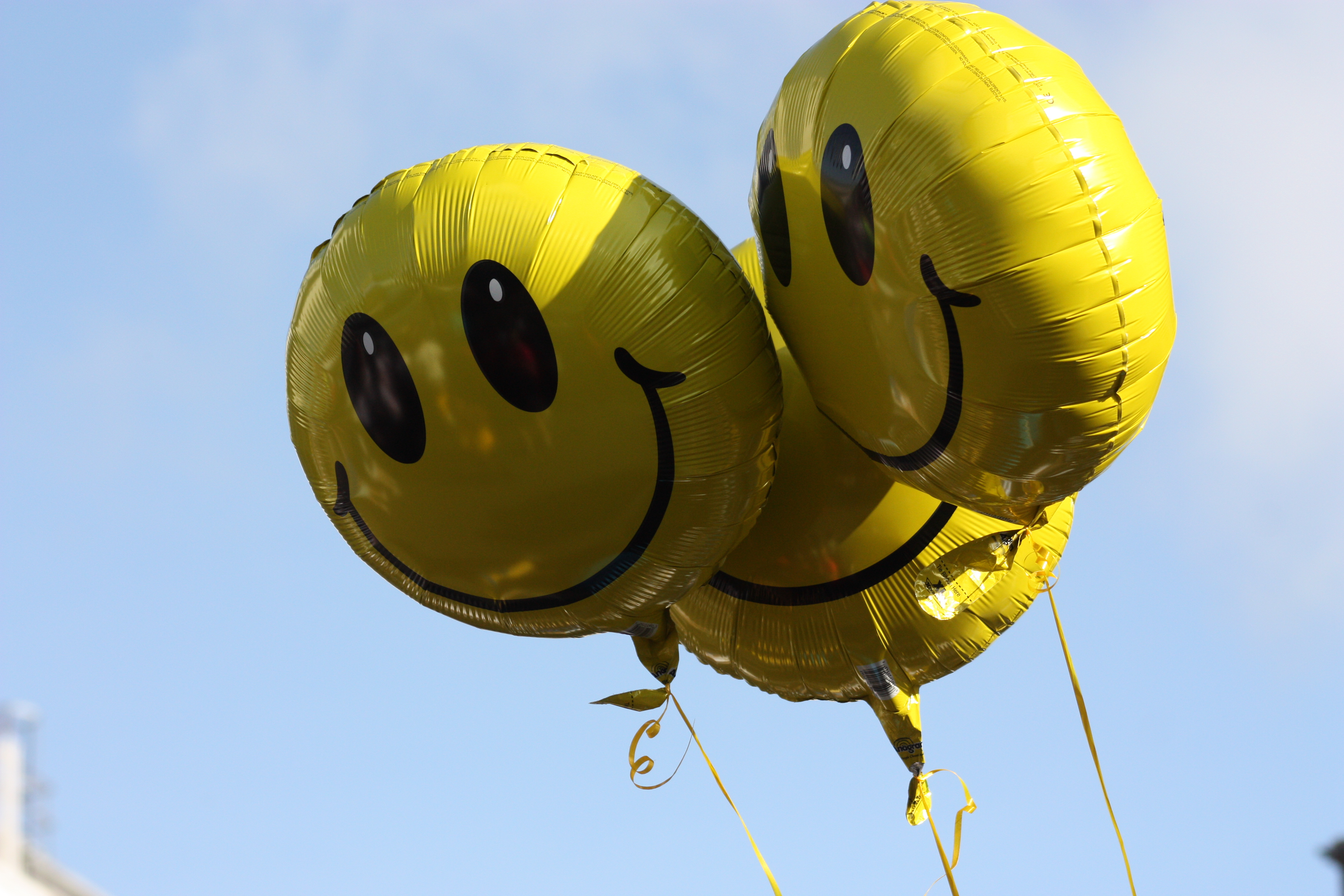 Balloons, Donegall Square North, Belfast, Northern Ireland, May 2010 (before the start of the Belfast City Marathon)